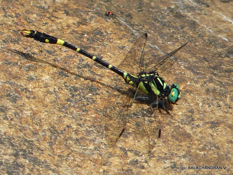 Onychogomphus acinaces is a species of dragonfliy in the family Gomphidae.